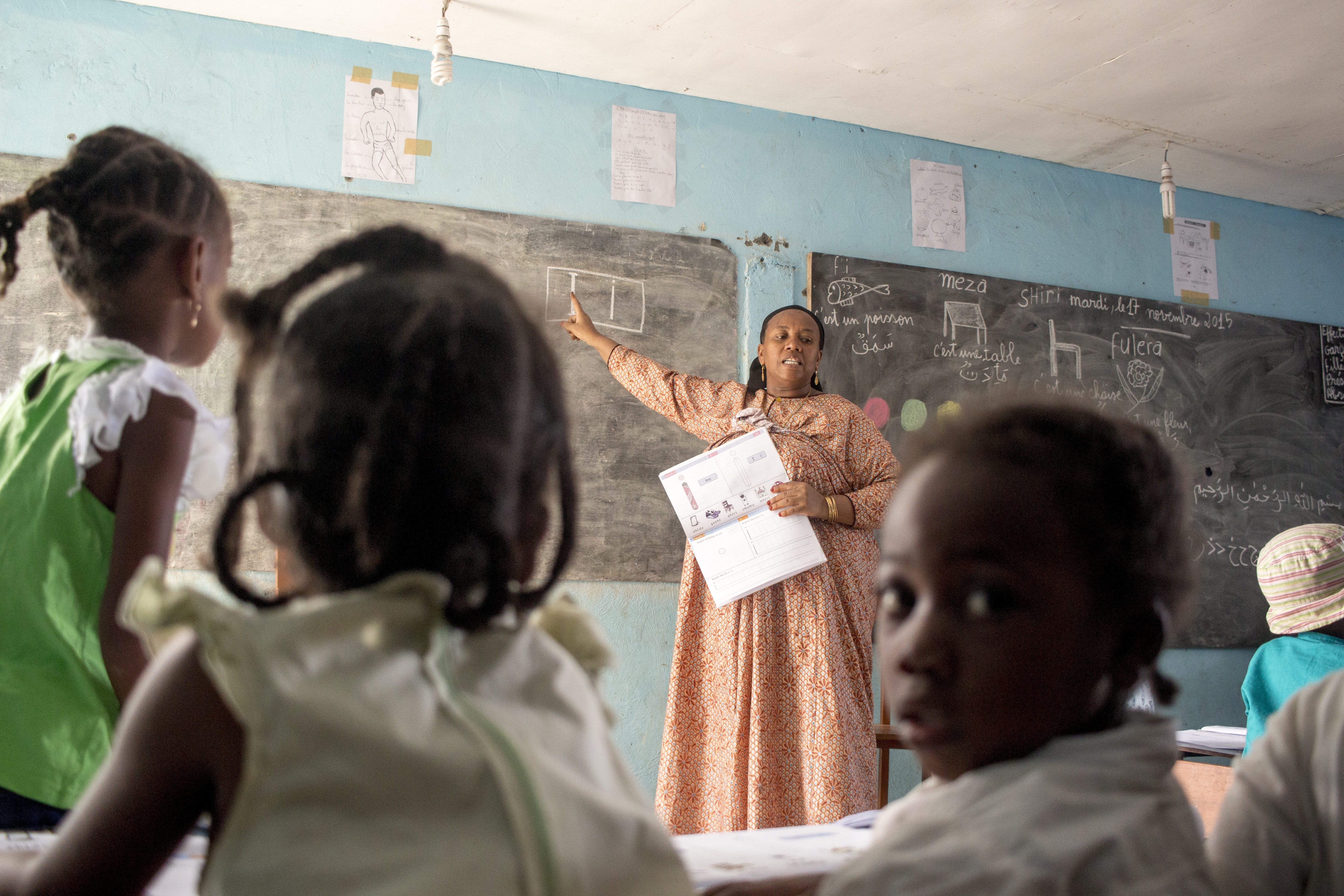 A Teacher that works in a prescolair class and teaches Shindzuwani - the local language. Taken in Anjouan, Comoros This is an image of "African people at work" from Comoros